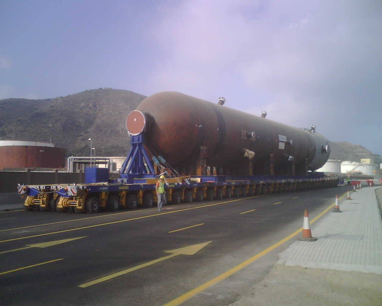 Movement of a vessel of 1350 tonnes with 288 wheels SPMT